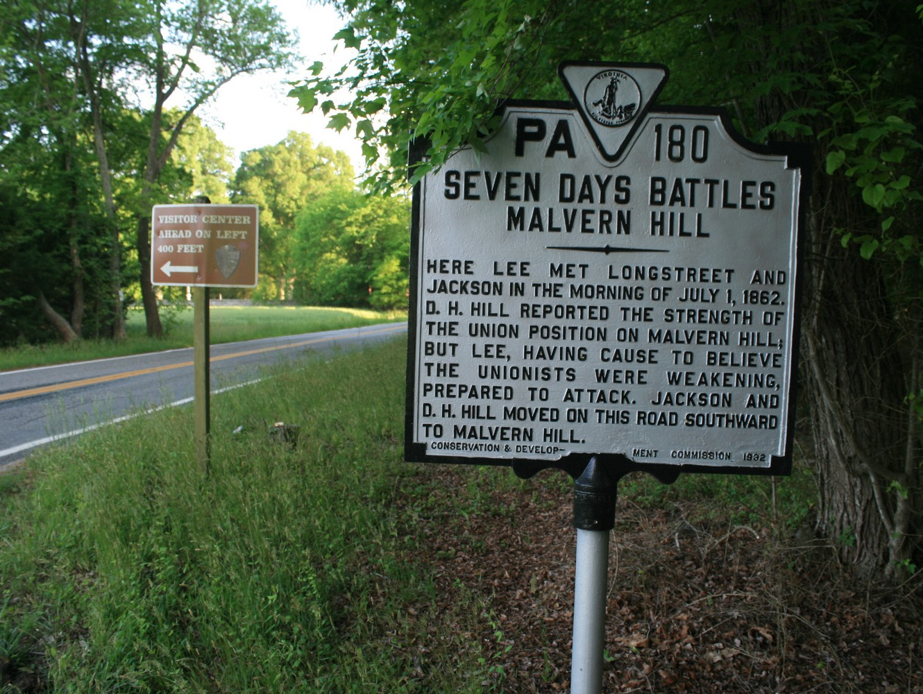 Marker on the road to Malvern Hill